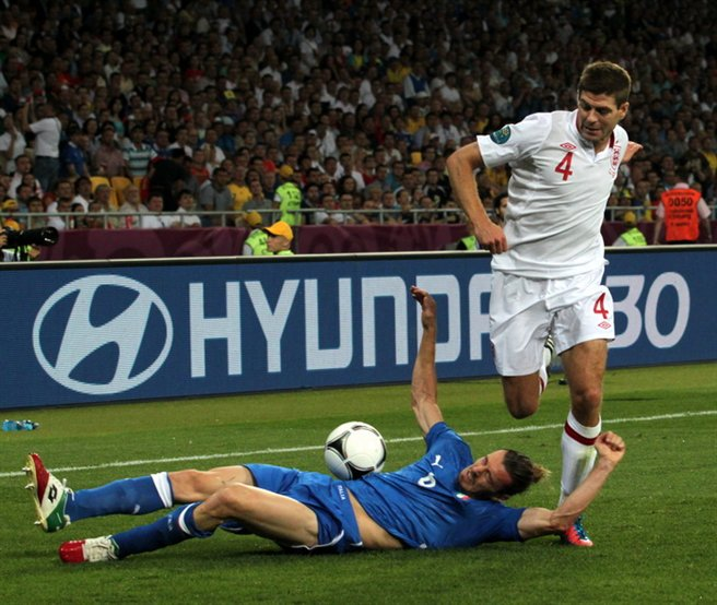 Steven Gerrard and Federico Balzaretti at Euro 2012 match England-Italy